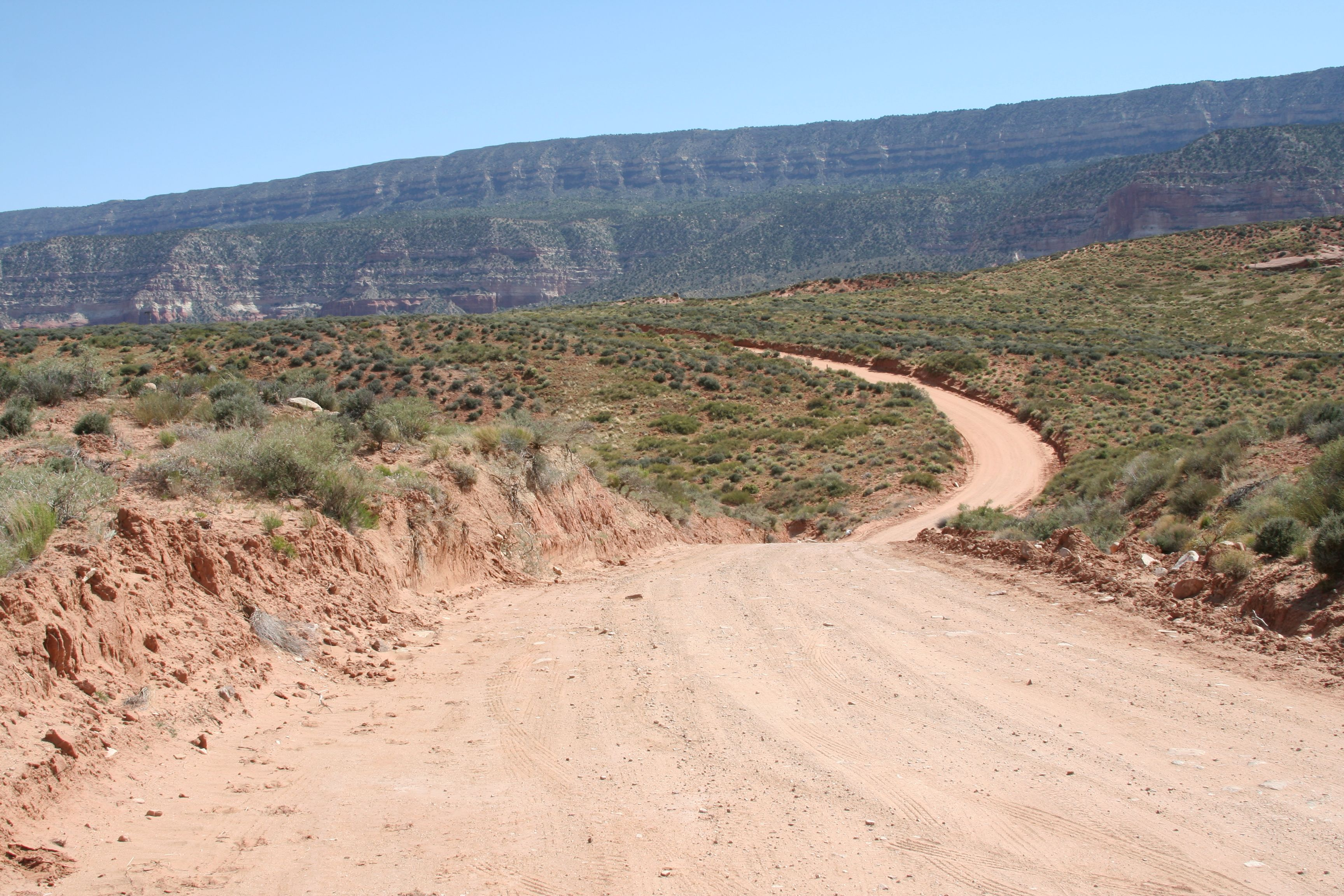 Hole-in-the-Rock-Road near Dancehall Rock